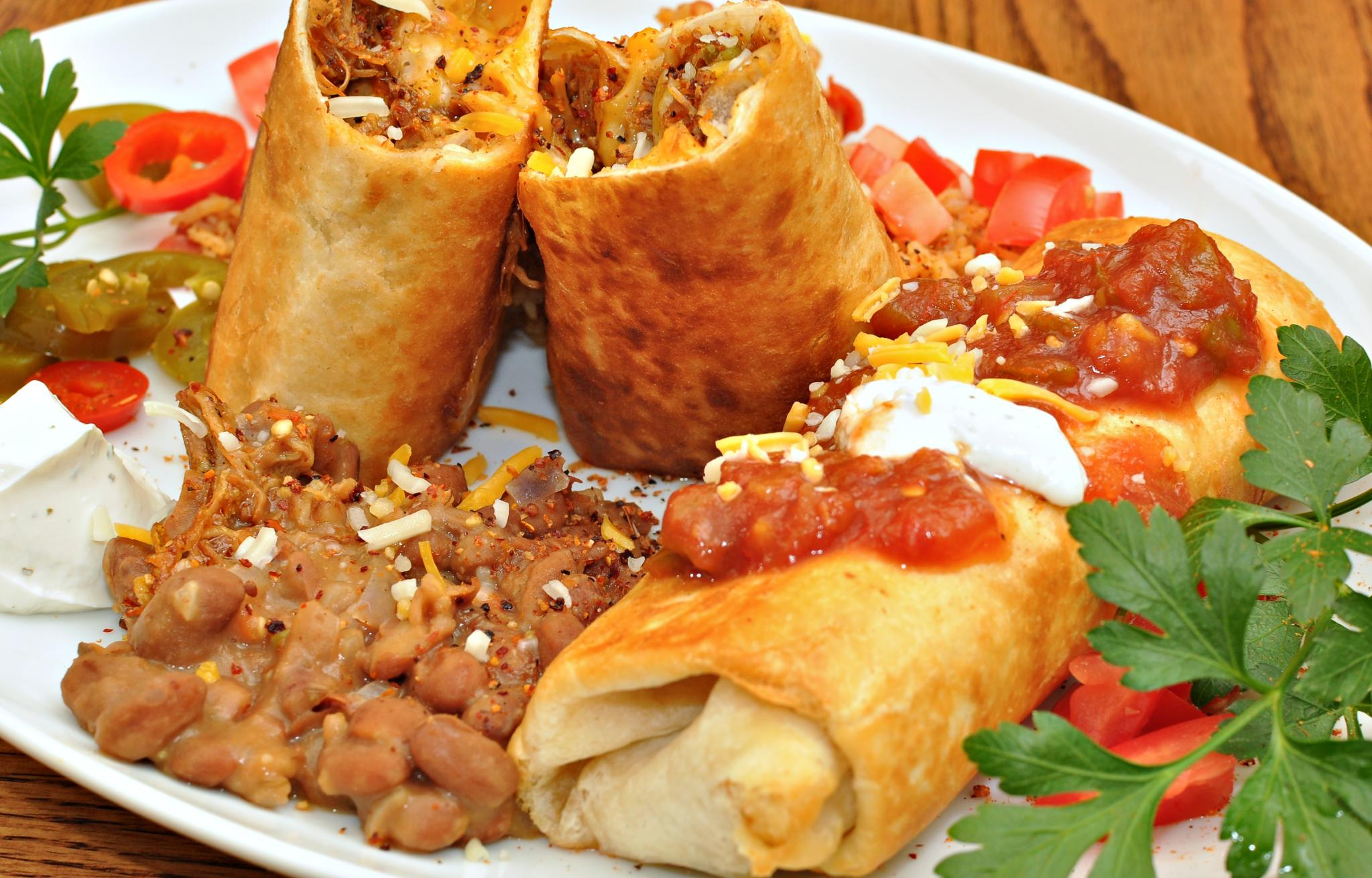 Chimichangas [1]